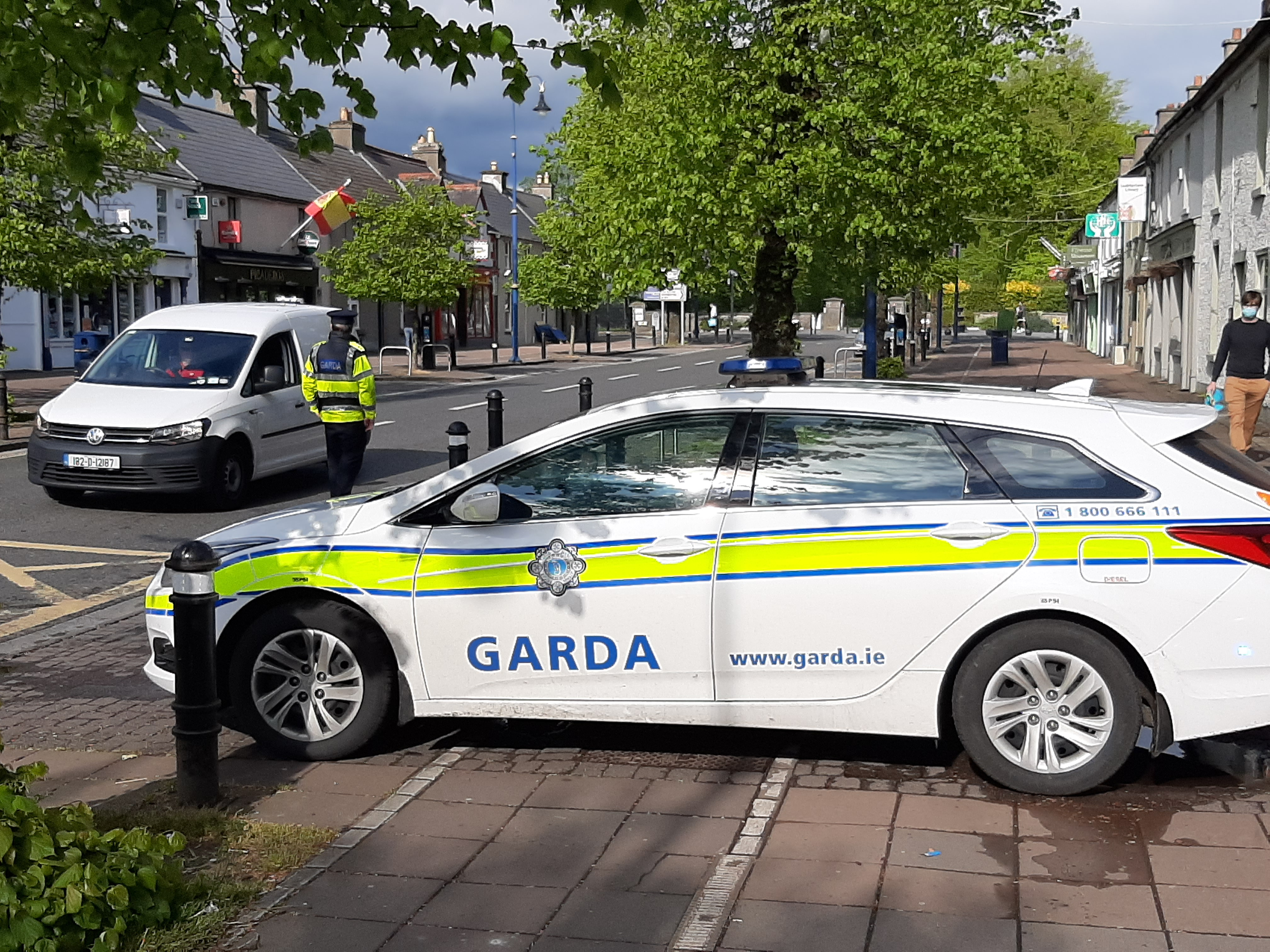 A Garda checkpoint during the 2020 coronavirus pandemic stopping motorists to see if any are violating the restrictions on travel